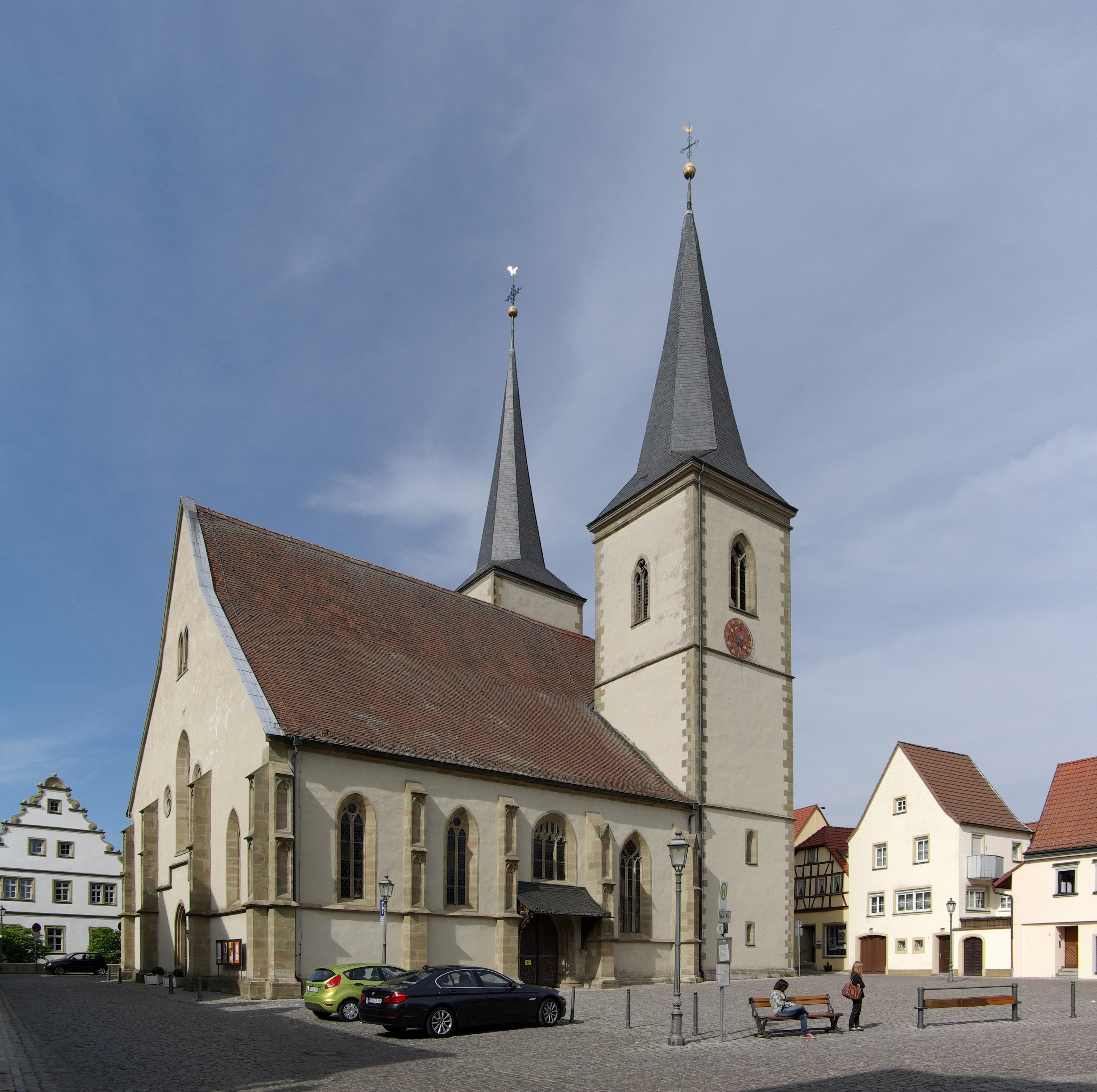 Germany, Haßfurt, Church St. Kilian